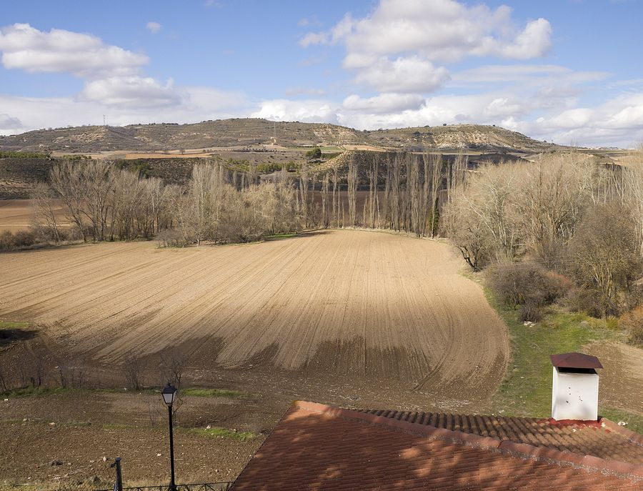 Entorno